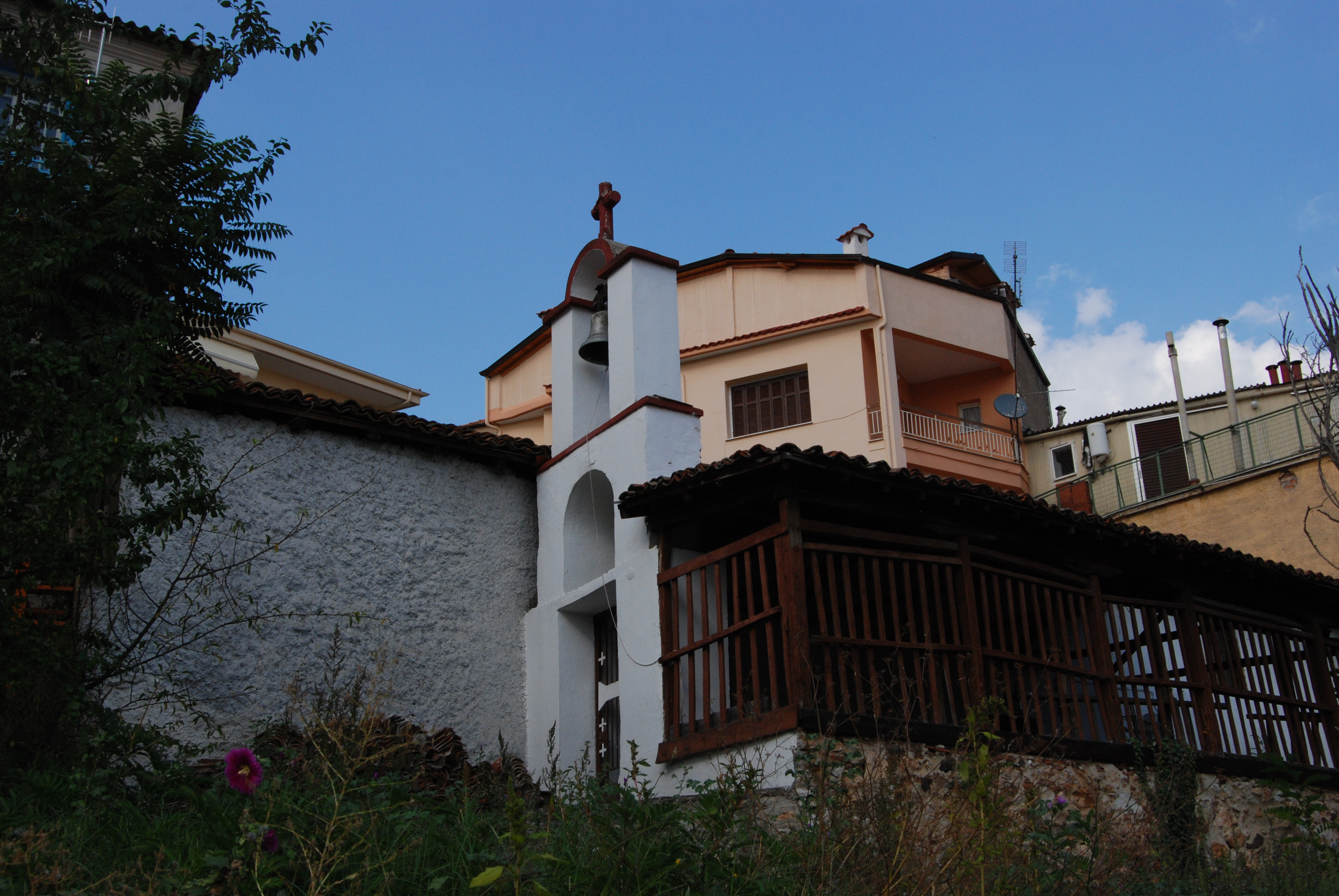 Saint Nicholas of Dragotas Church